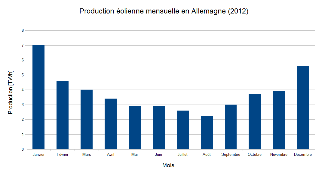 Monthly wind power production in Germany in 2012. Chart illustrating the seasonal nature of the wind energy production : more energy is produced during winter months compared to summer months.